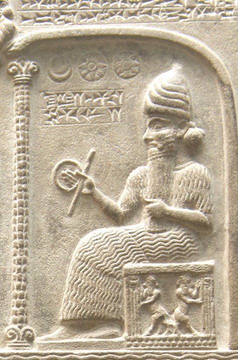 Cropped image of the Tablet of Shamash showing only the figure of Shamash himself